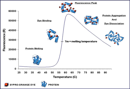 Fluorescence-based Thermal Shift Assay curve